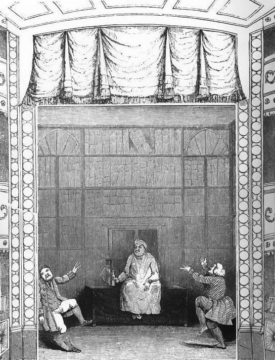 John Reeve (centre) in Act IV of the farce The Queer Subject by Joseph Stirling Coyne, as Bill Mattock, played at the Adelphi Theatre in November 1836. Dr. Bingo says "Oh! wonderful triumph of art, he lives!".